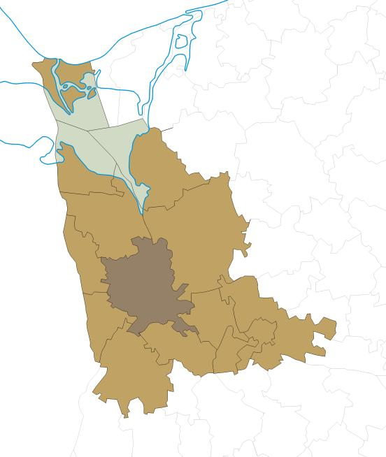 aglomeration of Szczecin / Stettin